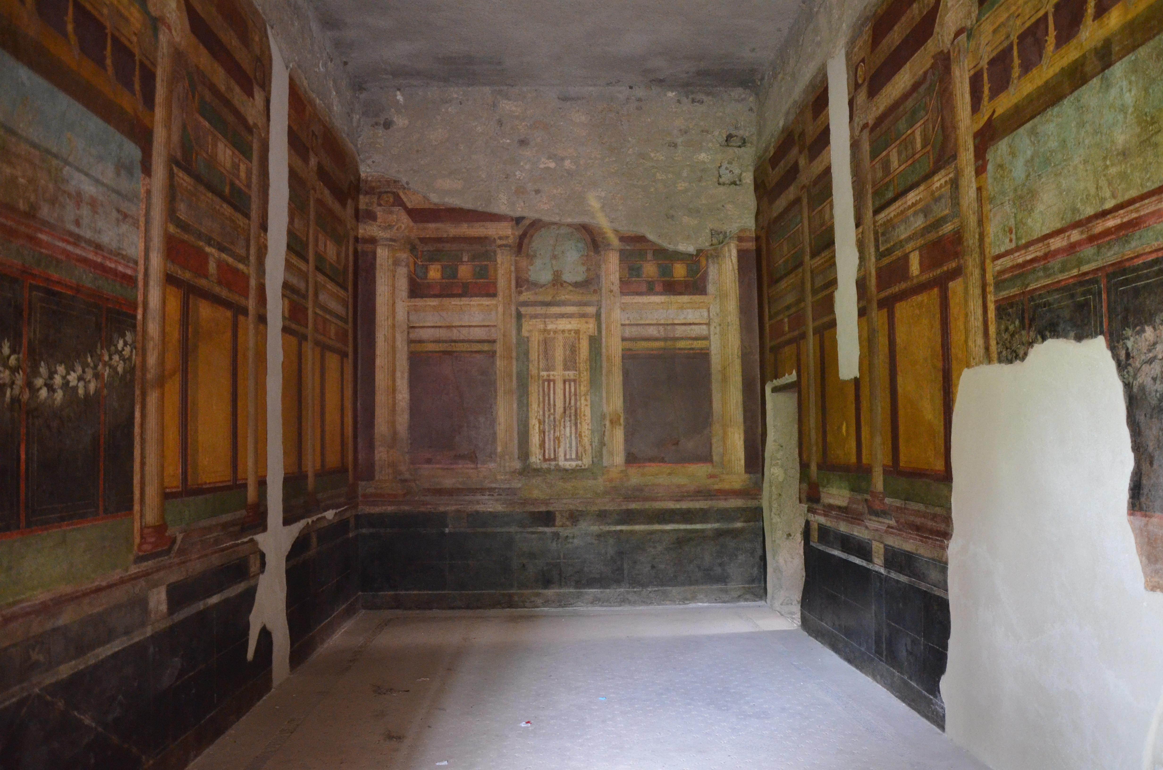 In situ wall fresco, Pompeii